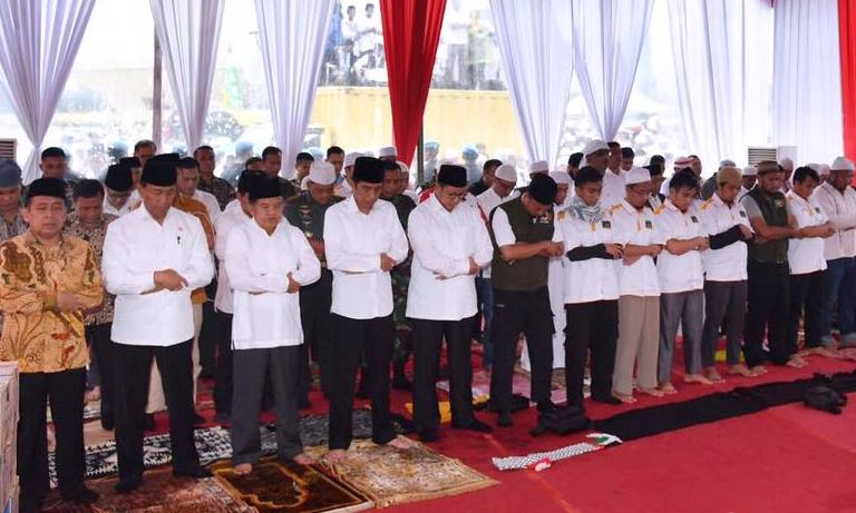 President Joko Widodo of Indonesia (front row, fourth from left) joining prayer in congregation with Vice President Jusuf Kalla (third from left), other cabinet members, and other worshippers, amid the 2 December 2016 protests in Jakarta